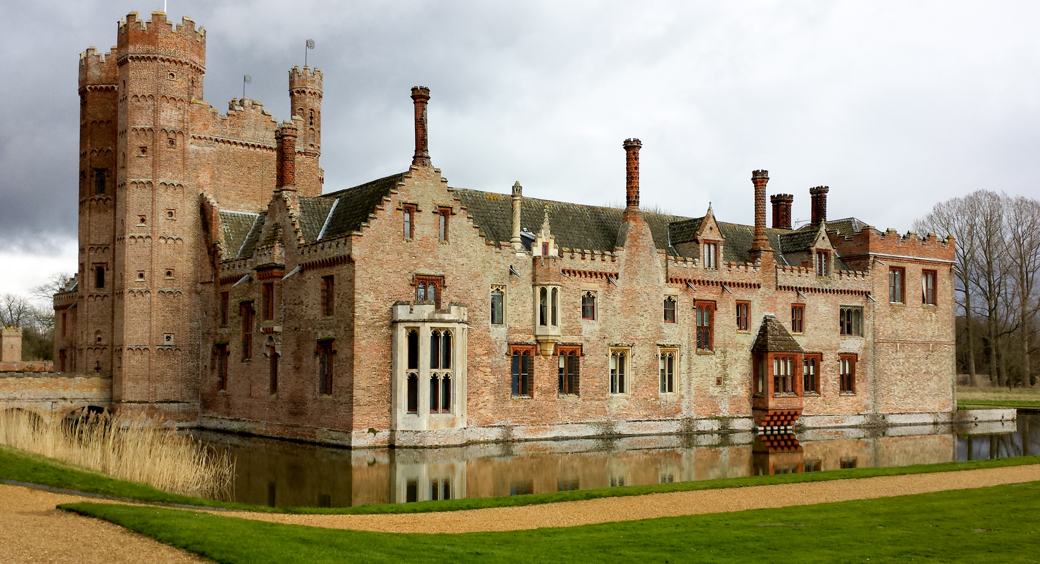 Oxburgh Hall, Oxburgh, Norfolk, England.